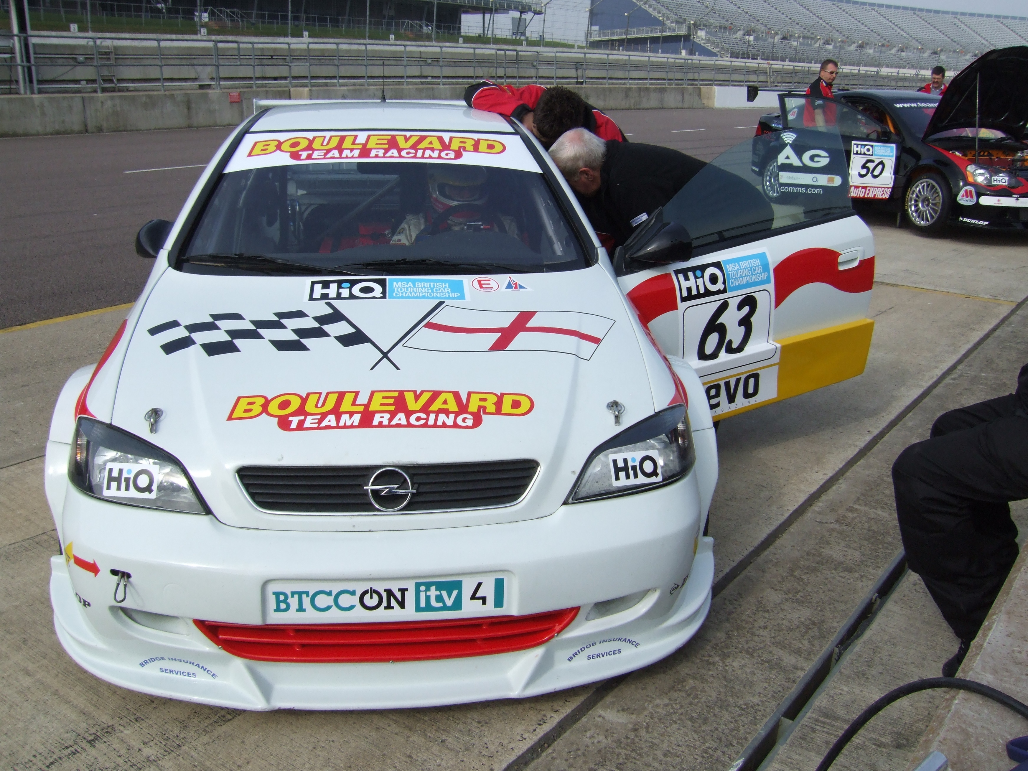 From BTCC Media Day held at Rockingham Speedway. Boulevard Team Racing Opel Astra Coupe. This car was once used by Turkish Touring Car Driver Erkut Kizilirmak & will be driven by Martin Johnson.